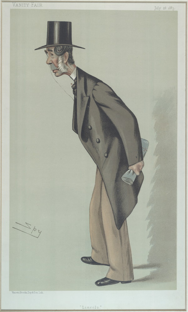 Statesmen No.428: Caricature of Mr John Hinde Palmer QC MP. Caption reads: "Lincoln"